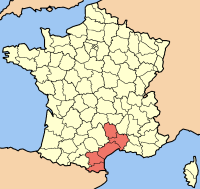 Map of the french Region Languedoc-Roussillon